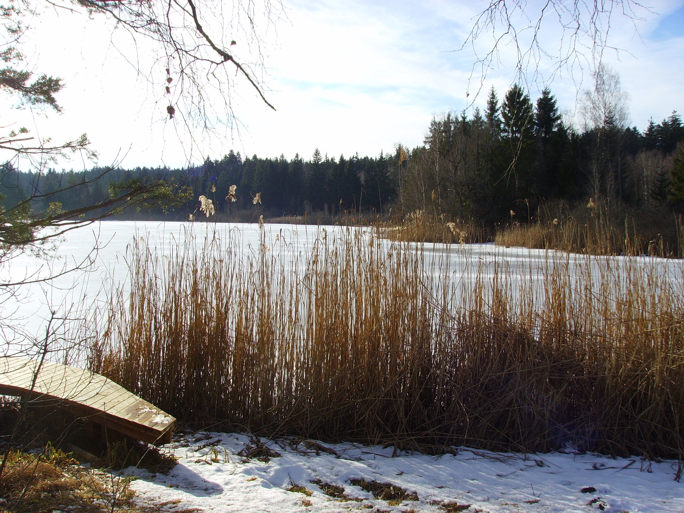 Max Planck Institute for Ornithology, Seewiesen (Bavaria, Germany), formerly known as Max Planck Institute für Behavioral Physiology: Lake Ess-See. This lake is wellknown as the place, where Austrian ethologist Konrad Lorenz made his experiments on imprinting in waterfowl.